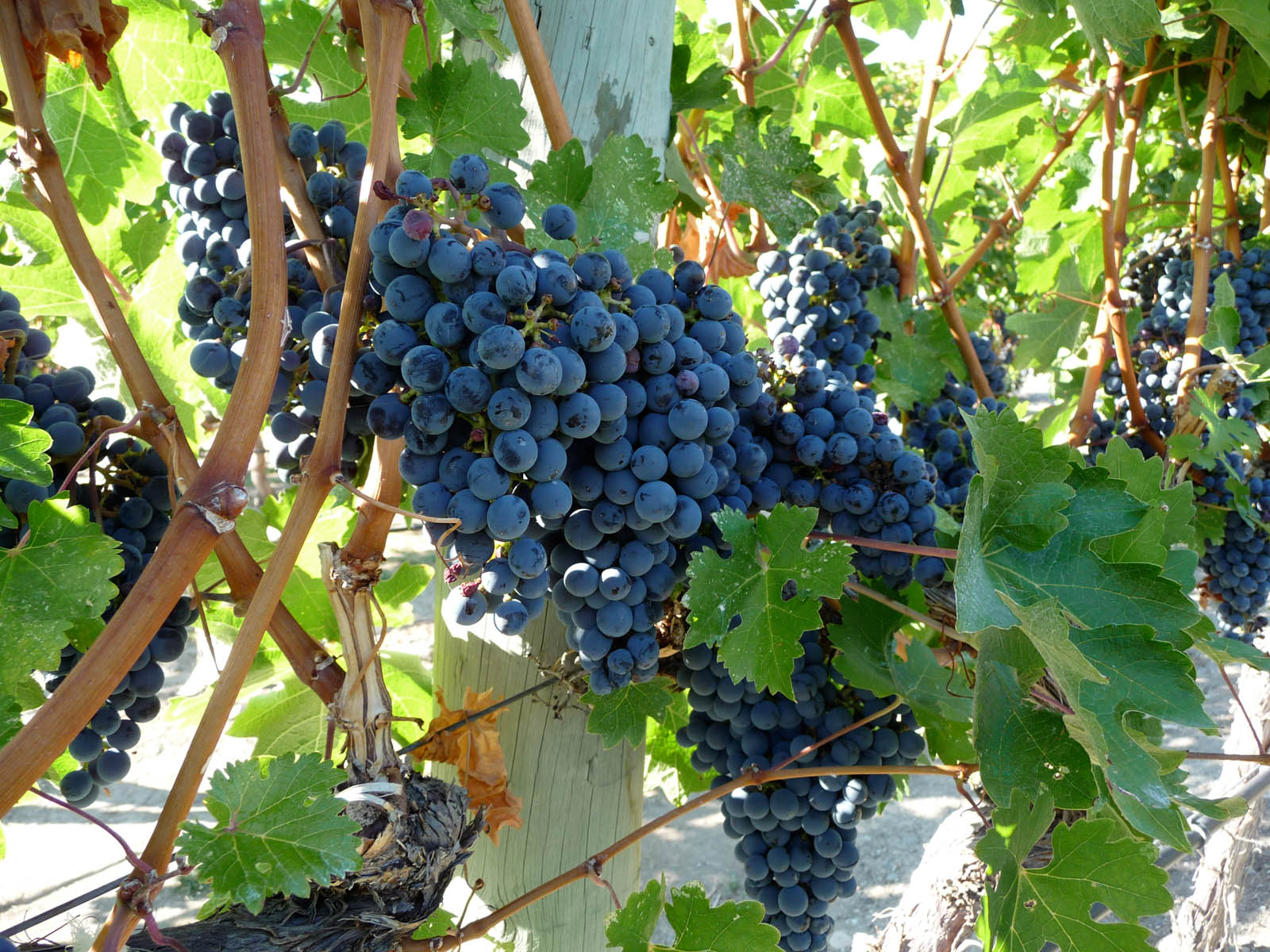 Red wine grapes growing in the Canadian wine region of the Okanagan in British Columbia.